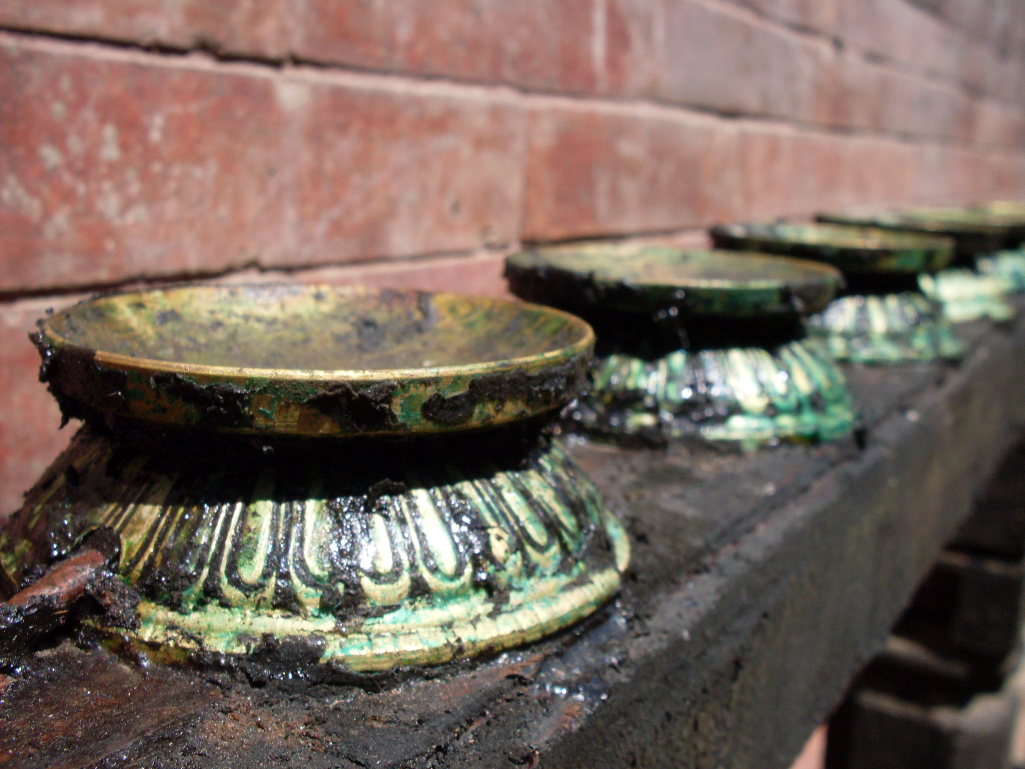 butter lamps at a buddhist stupa in Nepal